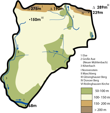 Maps of Kreis Herford (Germany) series. Shows various kinds of information including topographical, demographical, and use of land information for all communities of Kreis Herford and the district of Herford itstelf.